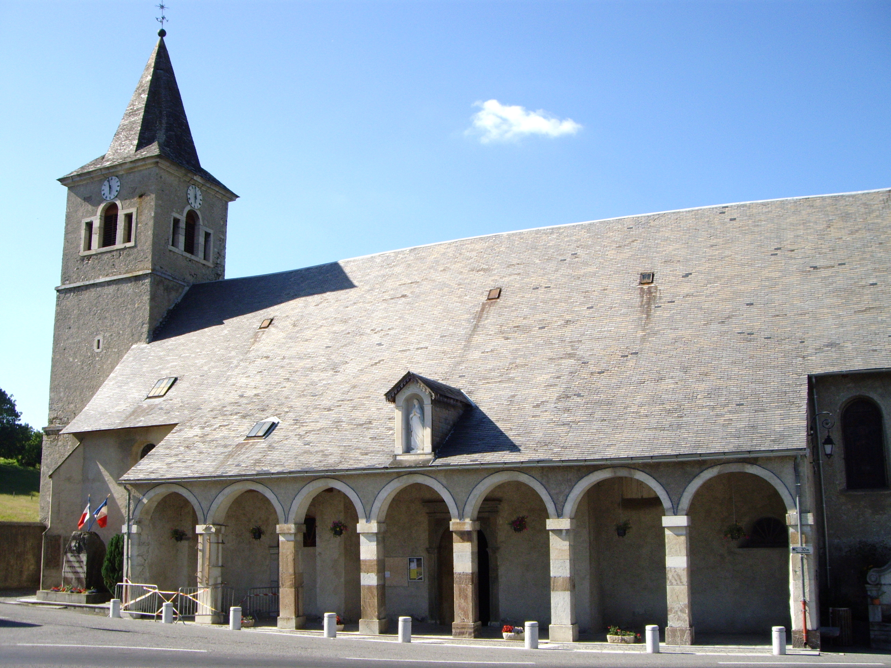 Sainte-Marie-de-Campan church, Campan, Hautes-Pyrénées, France